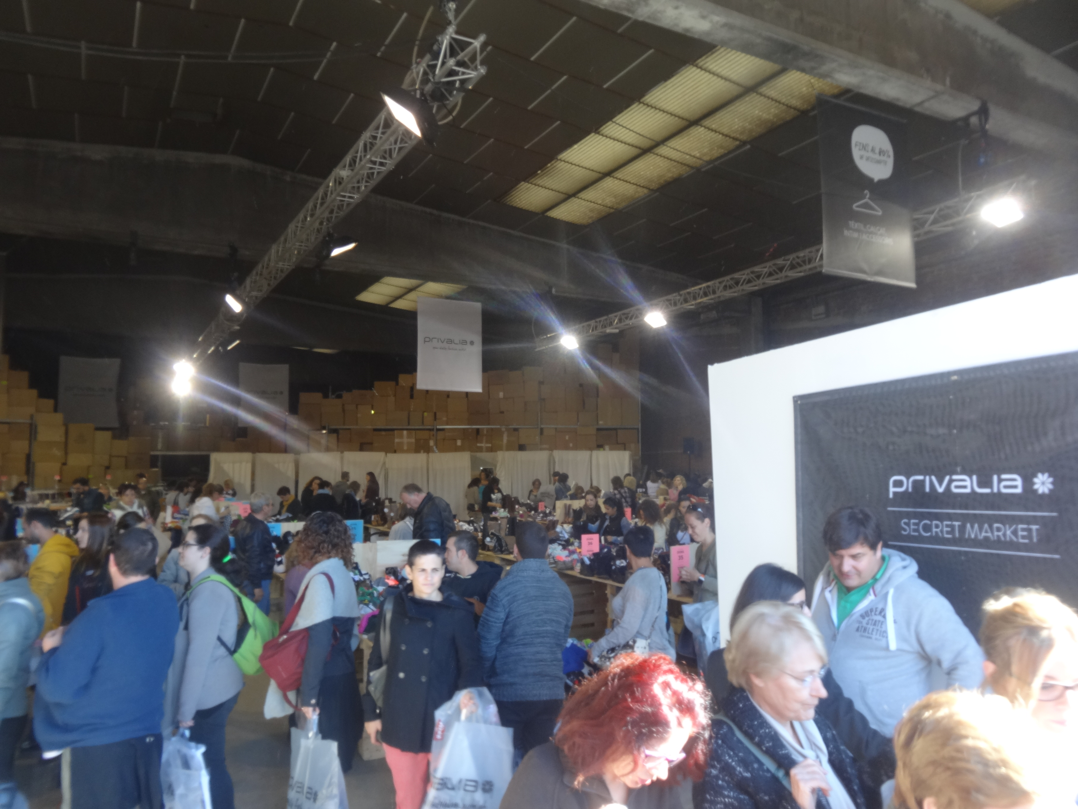 RecStores clothing shopping event - November 2015 in Igualada.